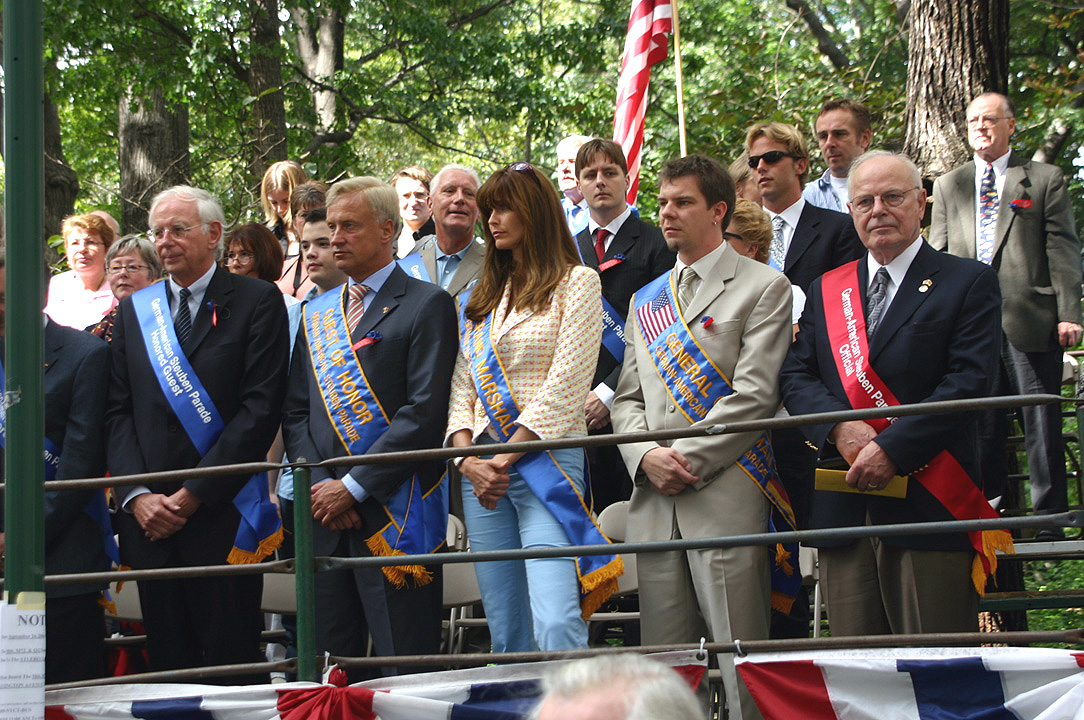 all rights with the cte... free to publish